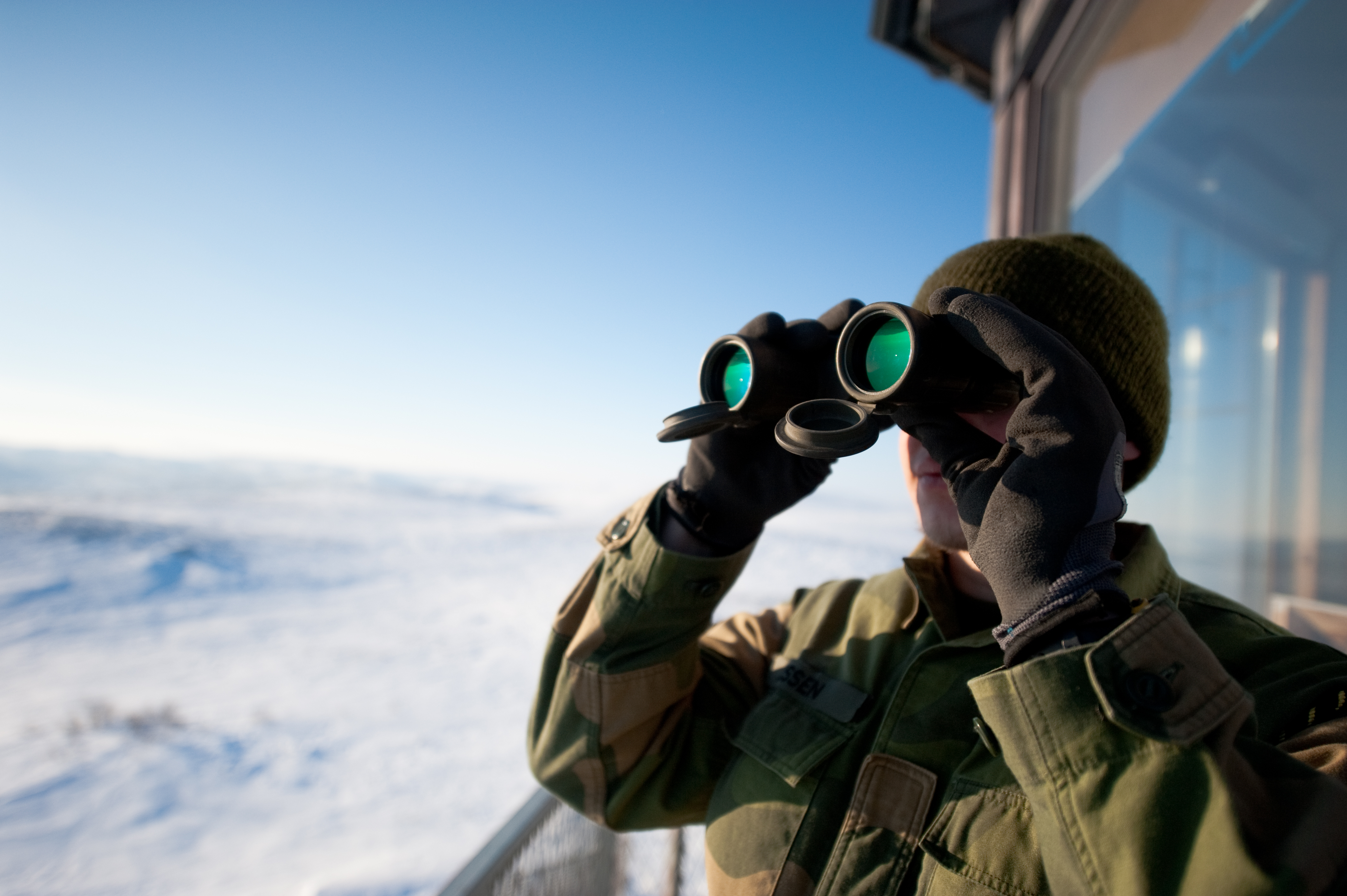 GSV (31 of 46)